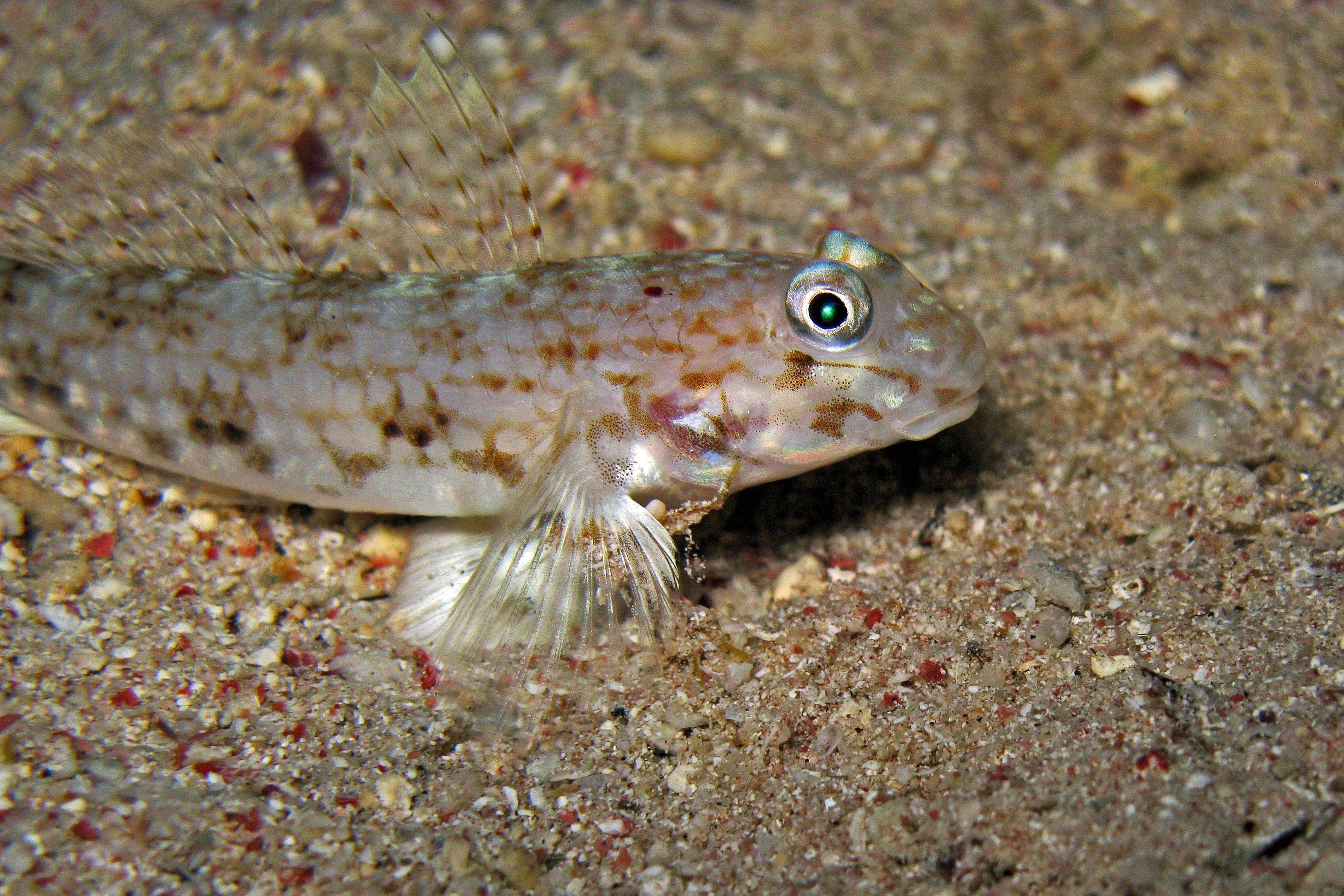 Blue -bar Partner Goby - Vanderhorstia ornatissima, Egypt-Sinai-Dahab (Nightdive)